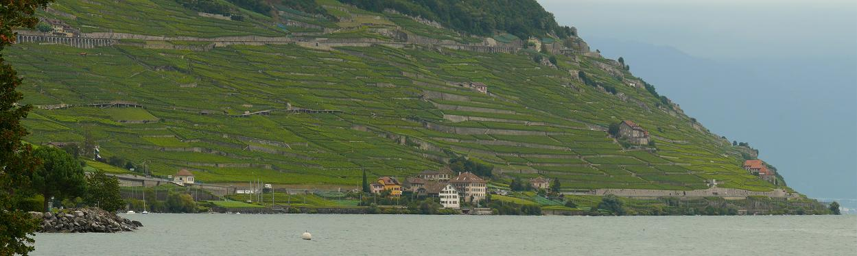 Vineyards of Epesses from Cully